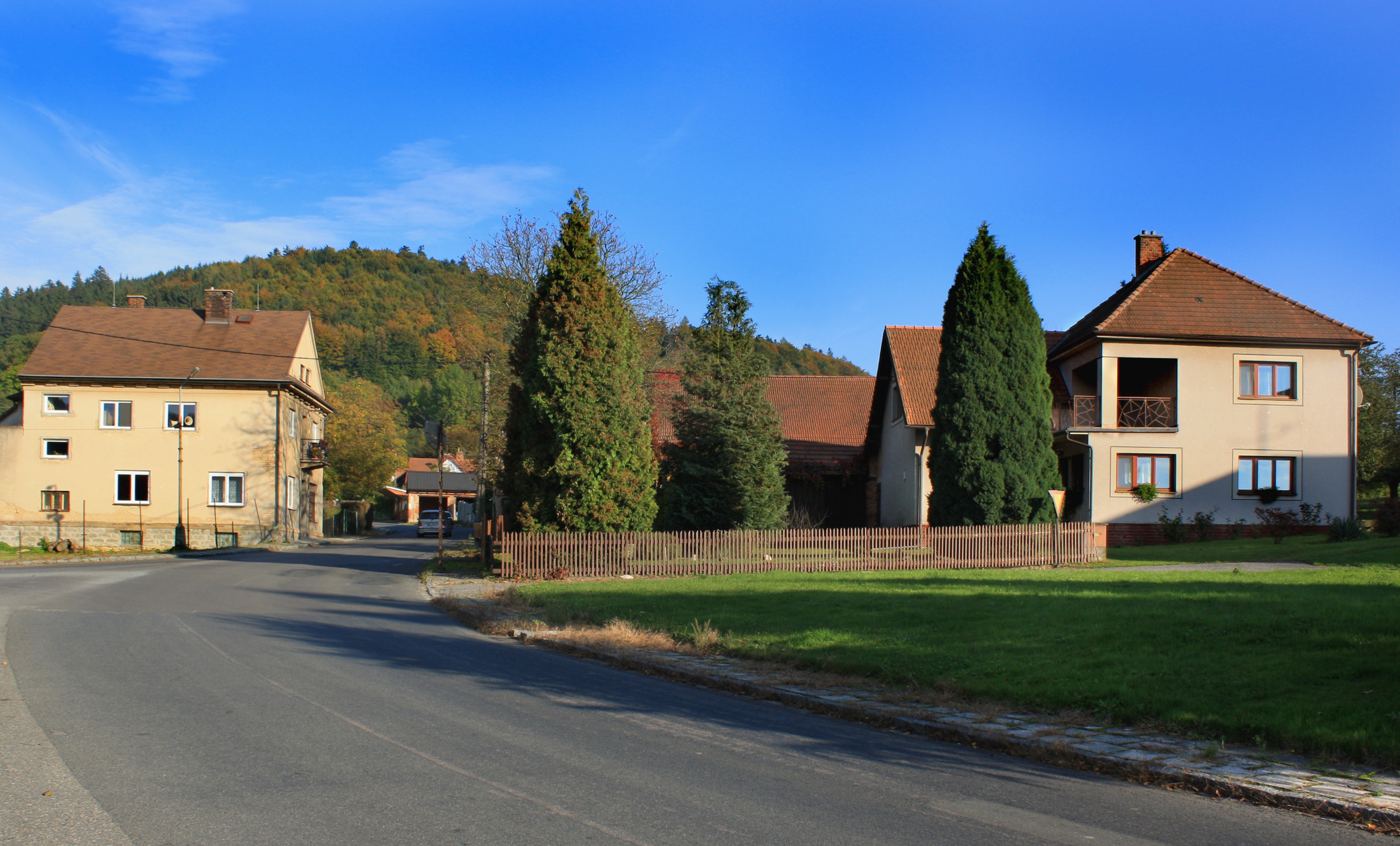 Lower part of Rviště, part of Orlické Podhůří, Czech Republic